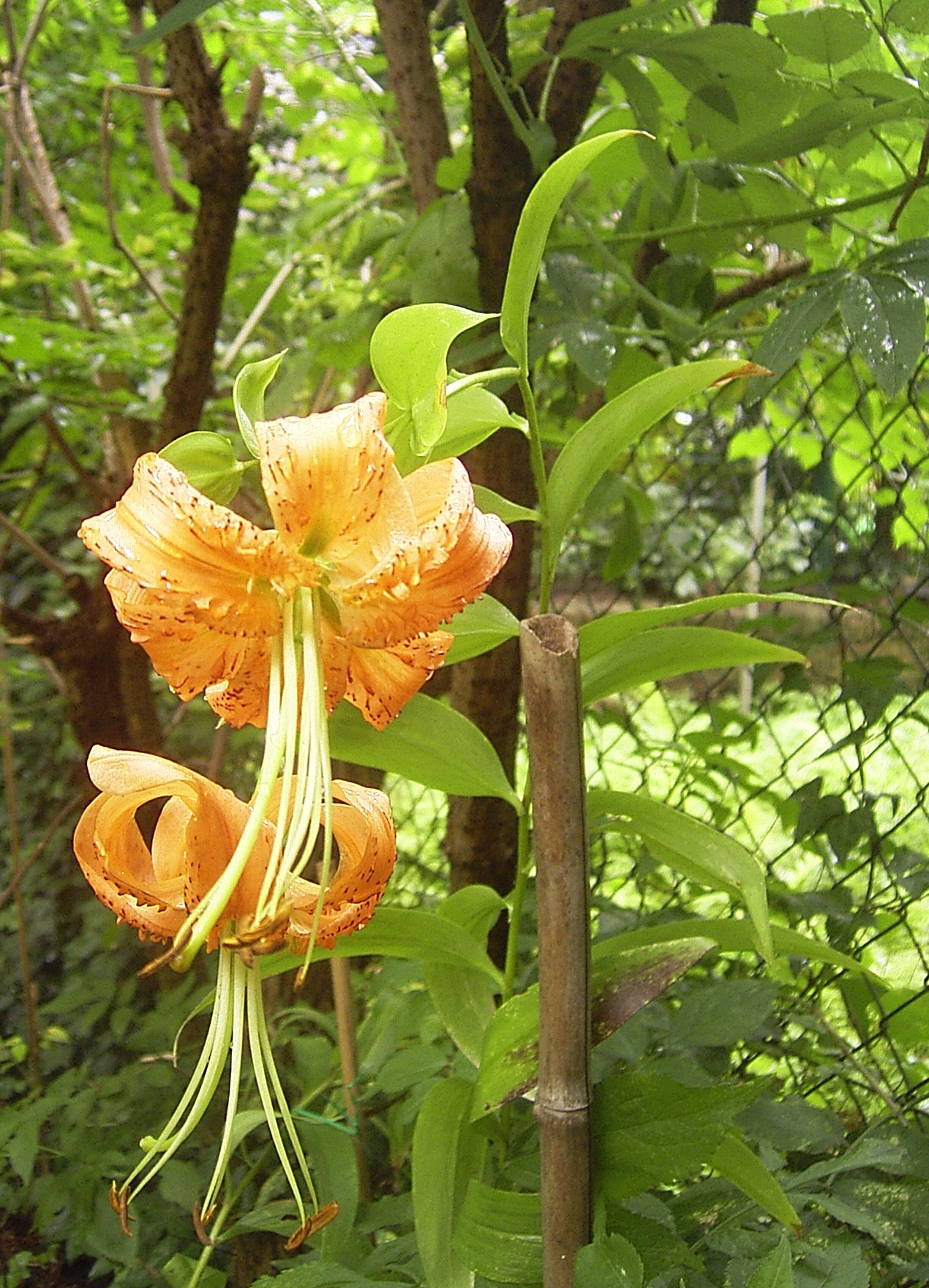 Lilium henryi Author Denis Barthel